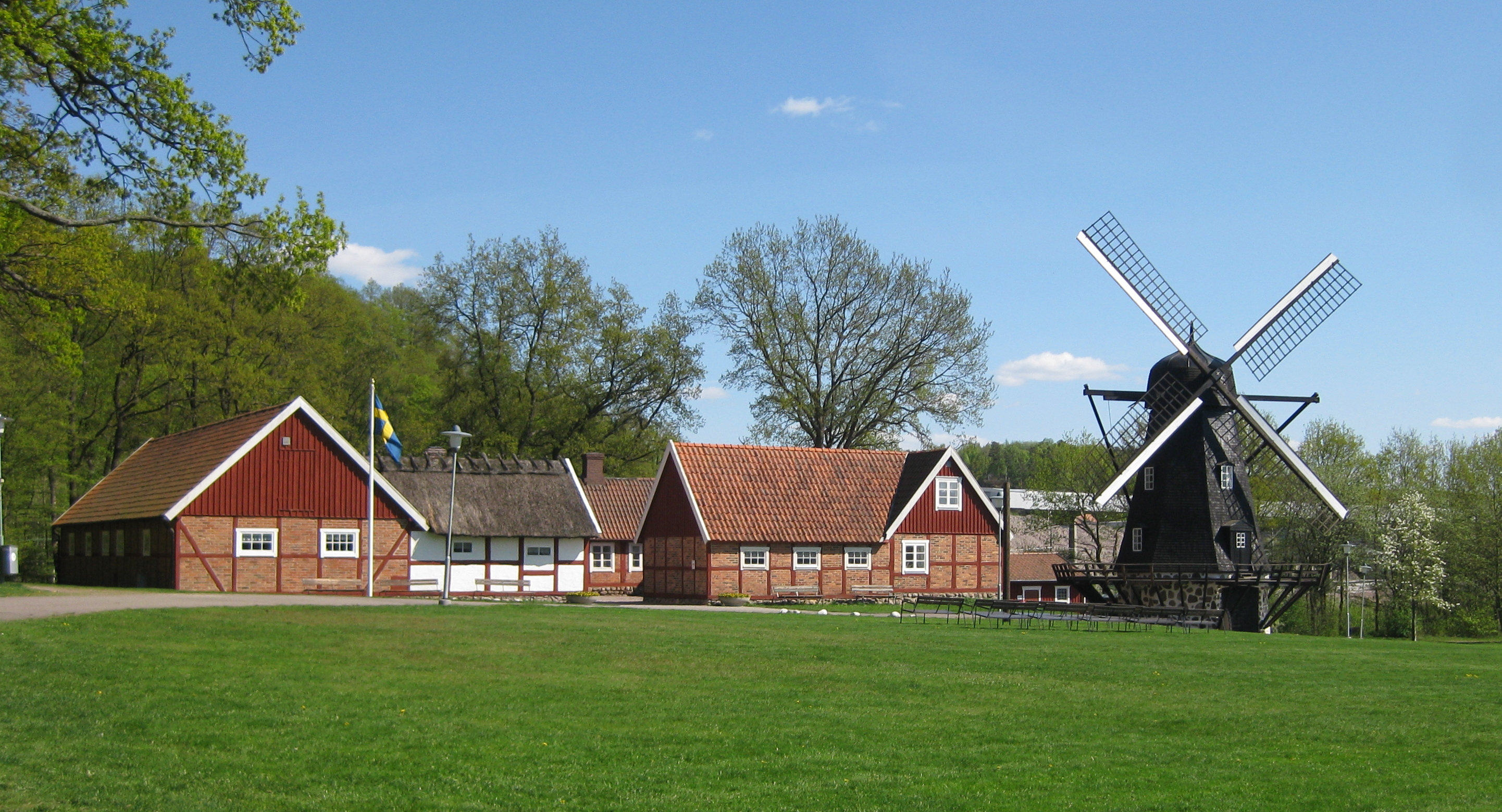 Åstorp folk museum in Skåne, Sweden